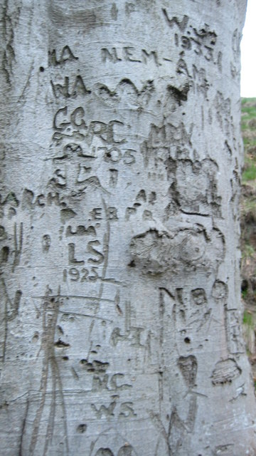 Graffiti from the nineteen twenties and thirties Many of the trees down in this area of the river have initials and dates carved into them - I'm guessing by the many mill workers who would have worked and passed through the area.